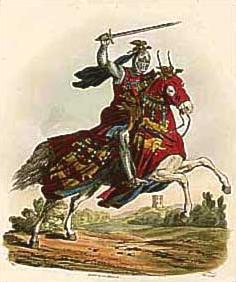 Thomas Plantagenet, Earl of Lancaster charging into battle in 1314